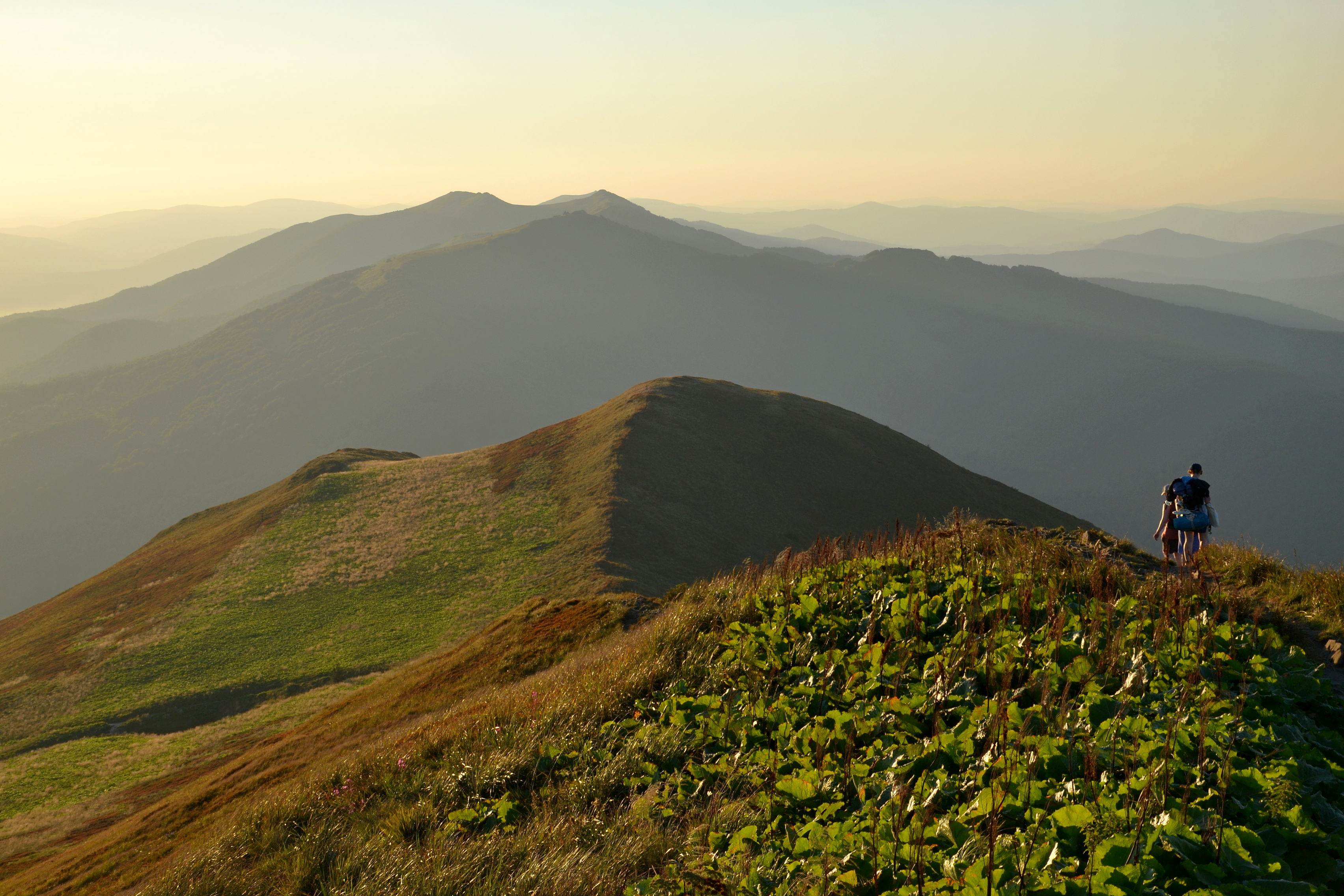 Bieszczady mountains, Poland. Połonica Caryńska in the evening